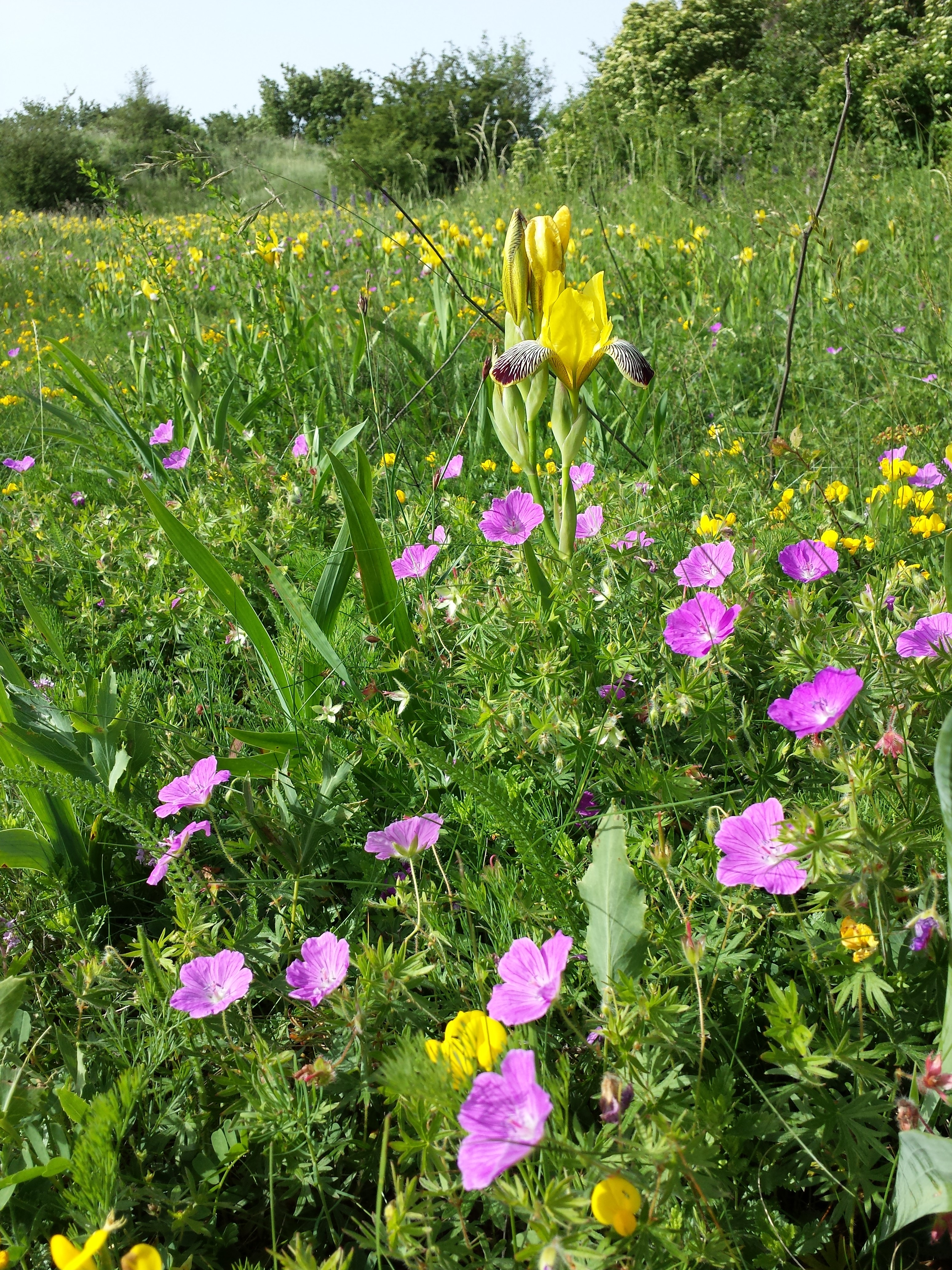 Habitus Taxa: Geranium sanguineum and Iris variegata (sensu Fischer et al. EfÖLS 2008 ISBN 978-3-85474-187-9) Location: natural monument "Alte Schanzen", object XII, Vienna-Floridsdorf - ca. 225 m a.s.l. Habitat: dry grassland This media shows the natural monument in Vienna with the ID 695.